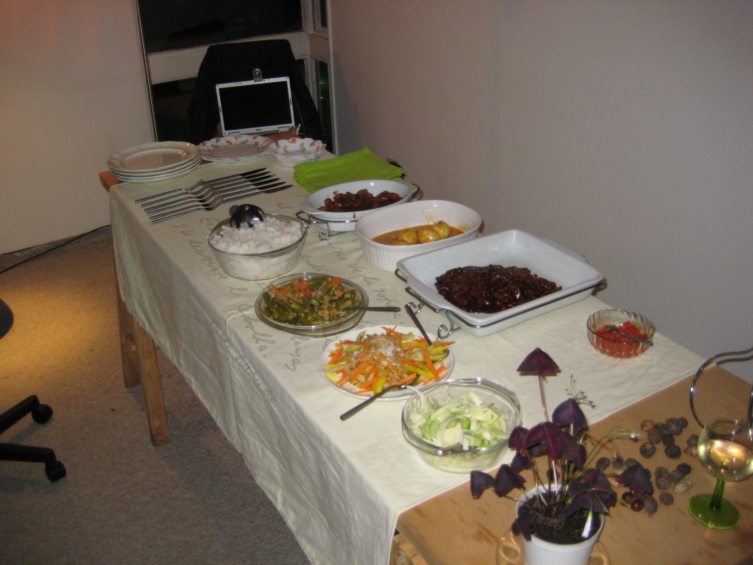 Indonesian rijstschotel